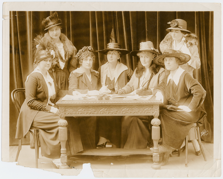 Seven founding members of Stage Women's War relief gathered around a table. From left to right: Mary Kirkpatrick, Dorothy Donnelly, Jessie Bonstelle, Rachel Crothers, Elizabeth Tyree, May Budelay, Eleanor Gates